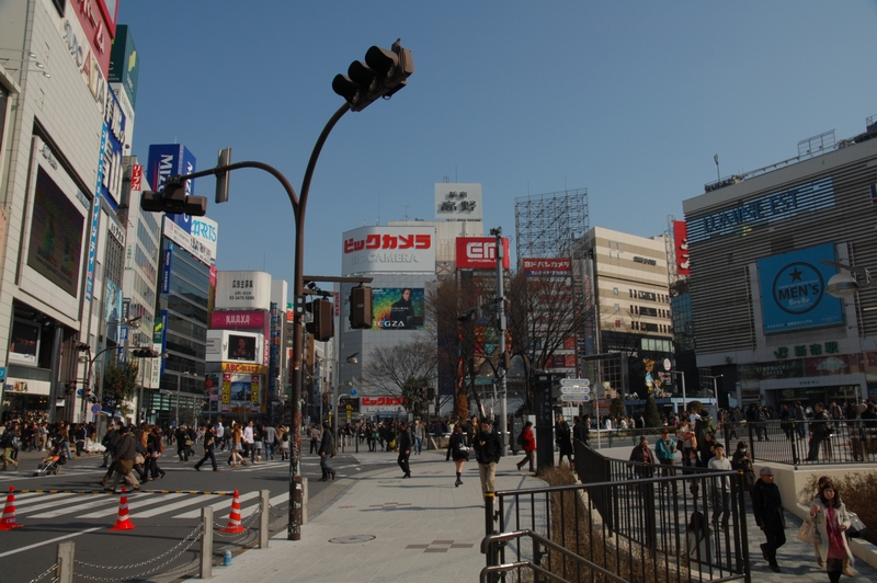 Shinjuku Station （East gate）